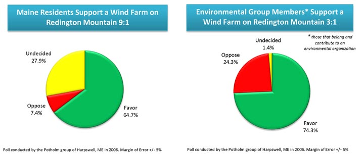 These pie charts show the results of a 2006 survey conducted by the Potholm Group of Harpswell, Maine.